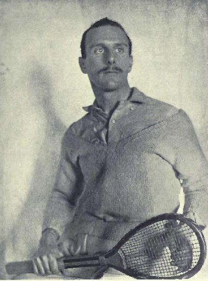 Eustace Miles, British Real Tennis Player